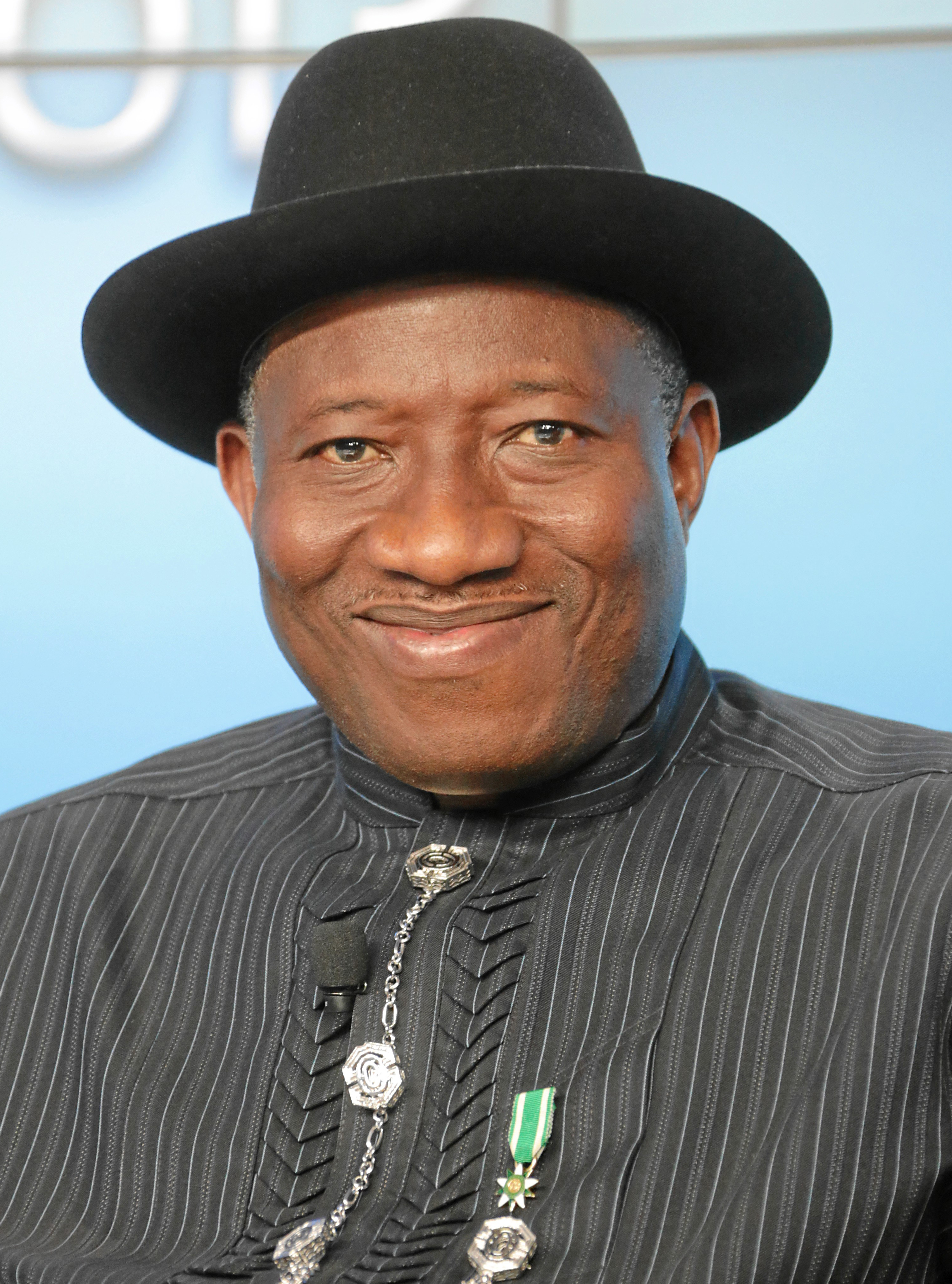 DAVOS/SWITZERLAND, 23JAN13 - Goodluck Ebele Jonathan, President of Nigeria speaks during the televised session 'De-risking Africa - Achieving Inclusive Prosperity' at the Annual Meeting 2013 of the World Economic Forum in Davos, Switzerland, January 23, 2013.. . Copyright by World Economic Forum. . Remy Steinegger